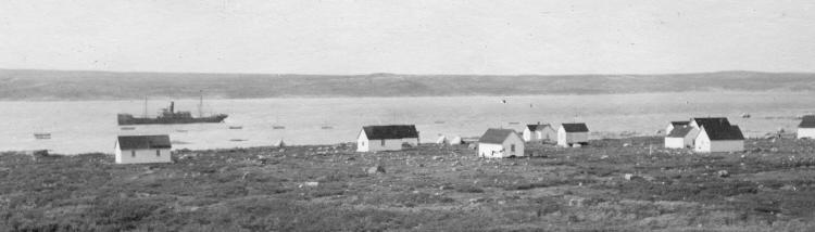 Photograph, Fort Chimo (Kuujjuaq) on the left shore of the Koksoak River, Ungava Bay, 1909, Hugh A. Peck, Silver salts - Gelatin silver process - 10.4 x 15.8 cm